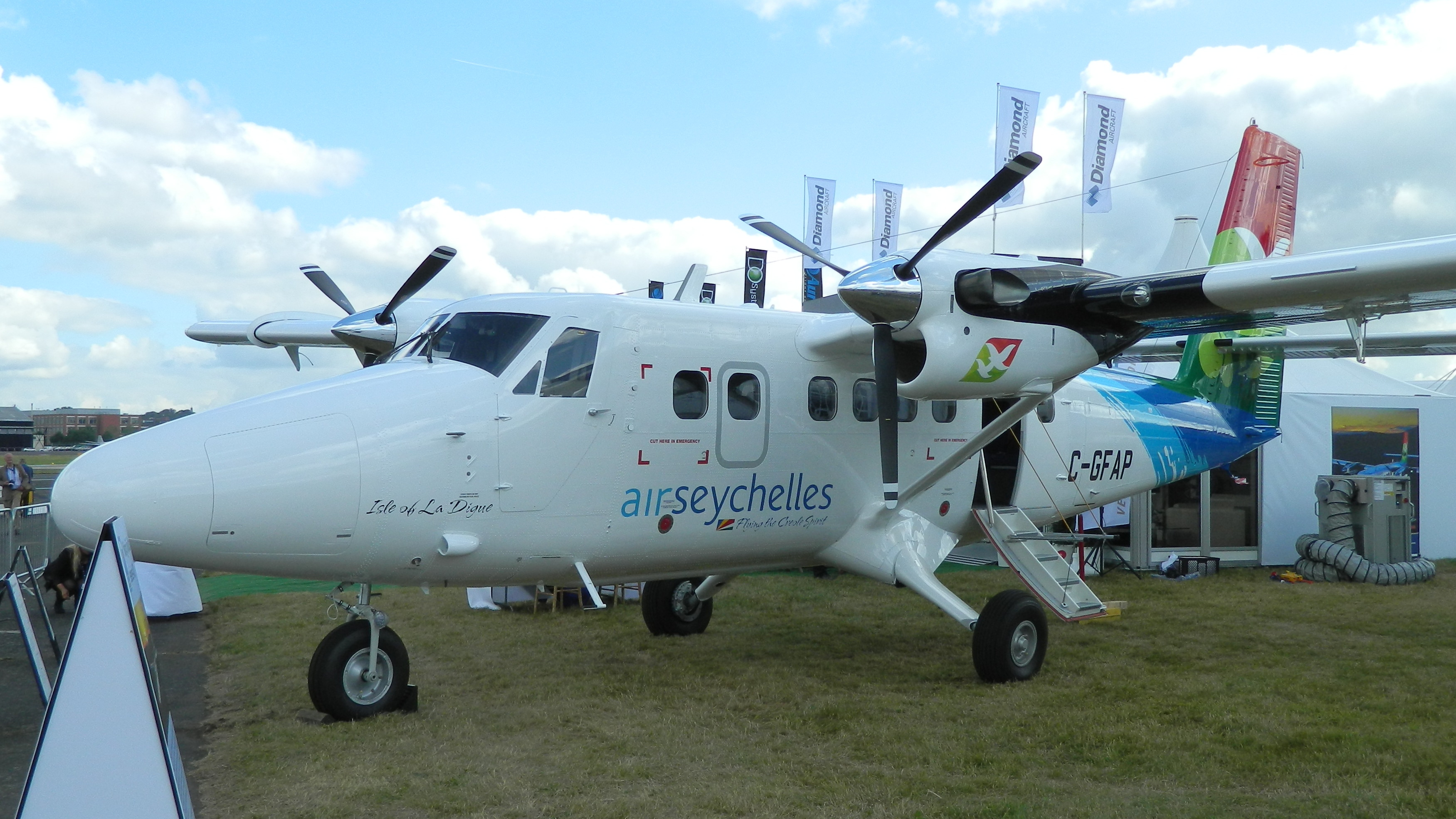 Viking Air DHC-6-400 Twin Otter for delivery to Air Seychelles but still registered in Canada as C-GFAP, at 2014 Farnborough Air Show